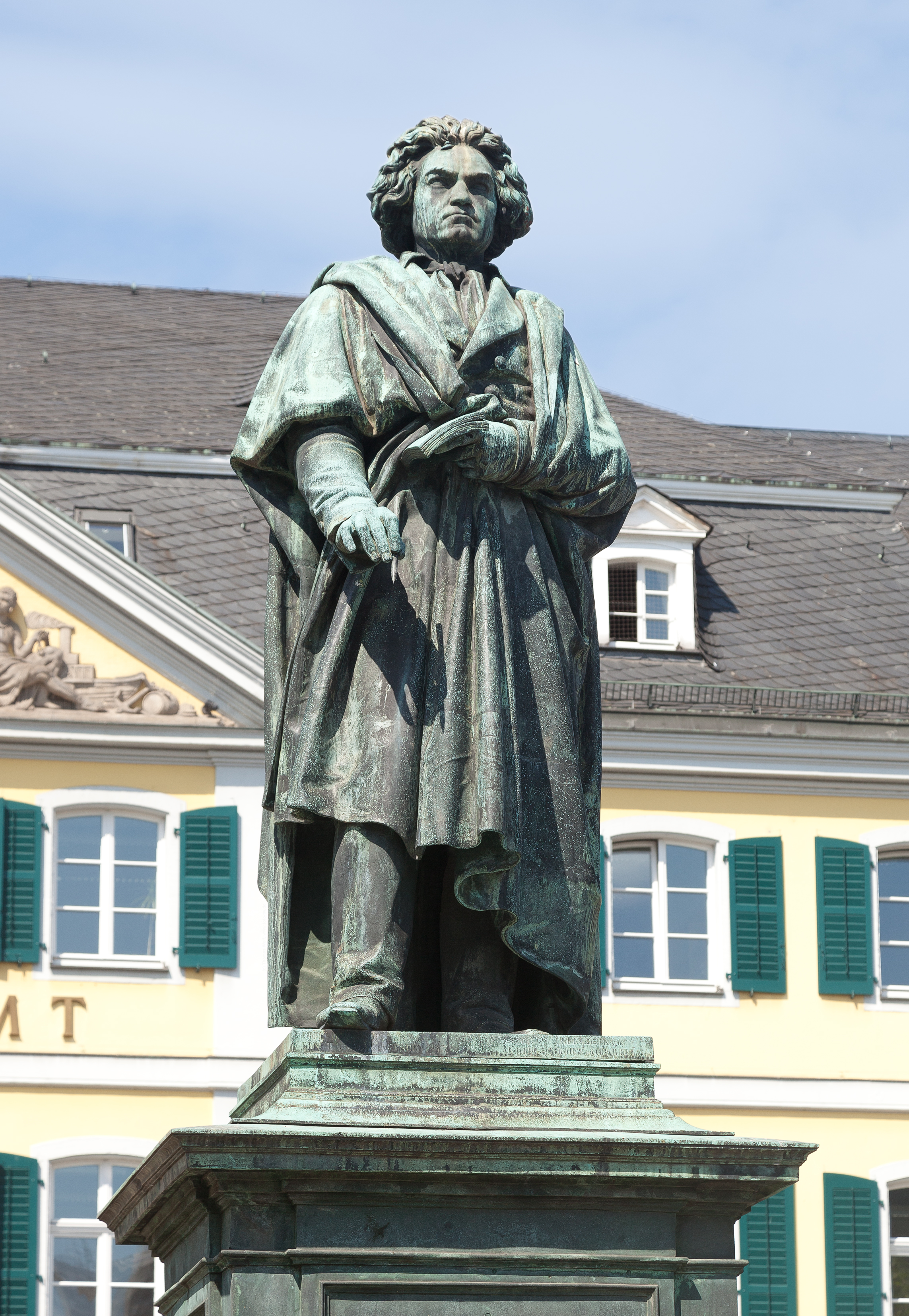 Beethoven Monument in Bonn, Germany